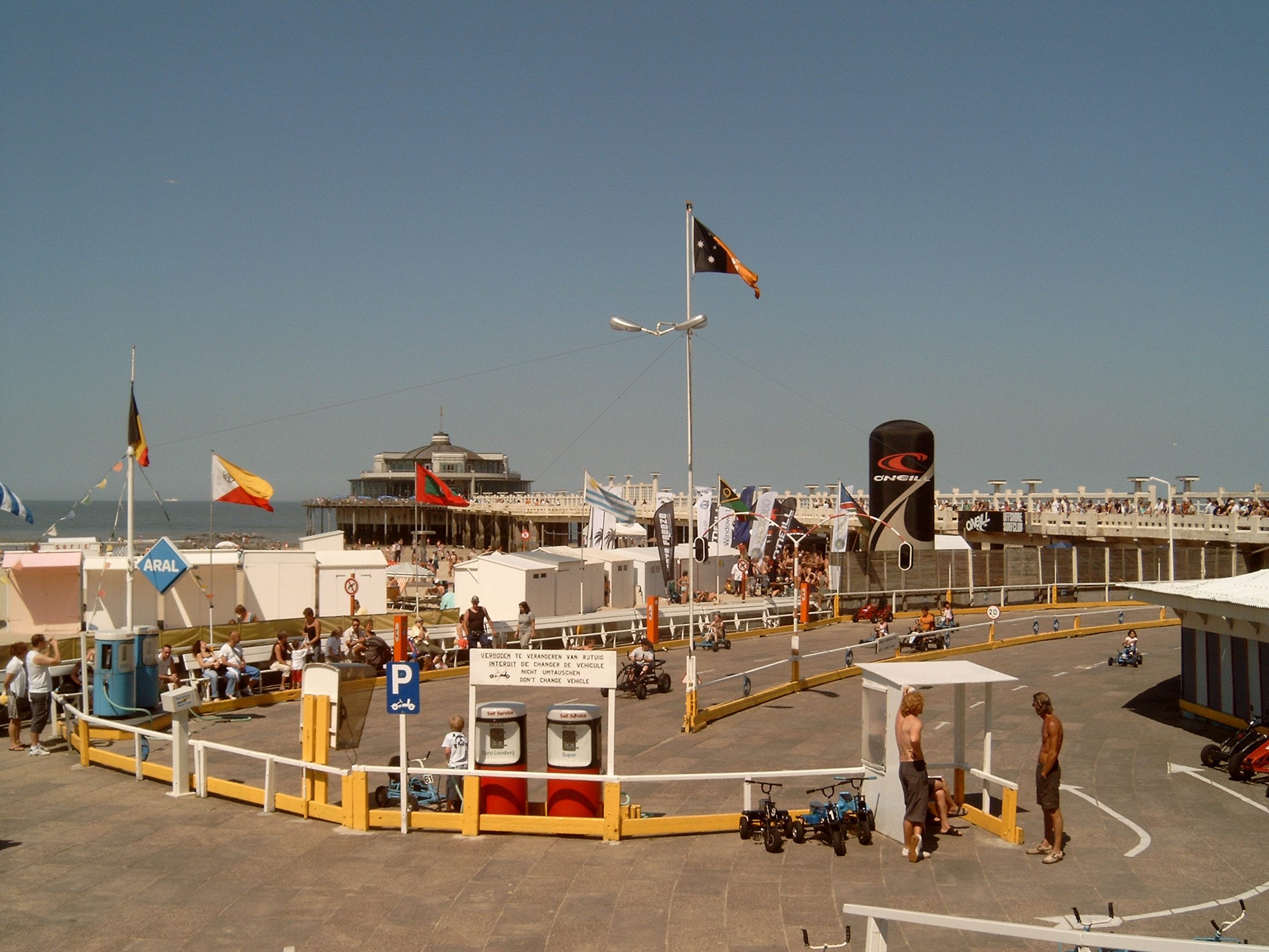 Blankenberge, pier Oost